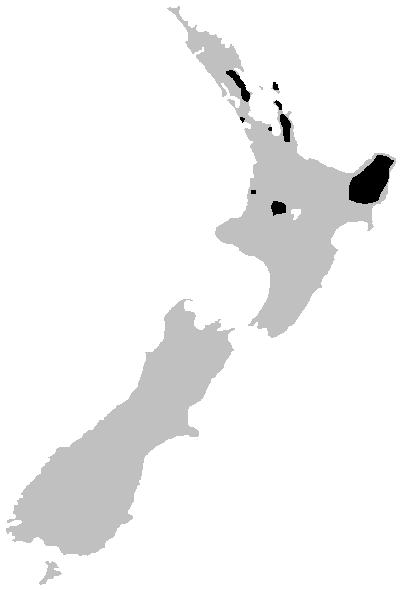 Distribution of Hochstetters Frog (Leiopelma hochstetteri)